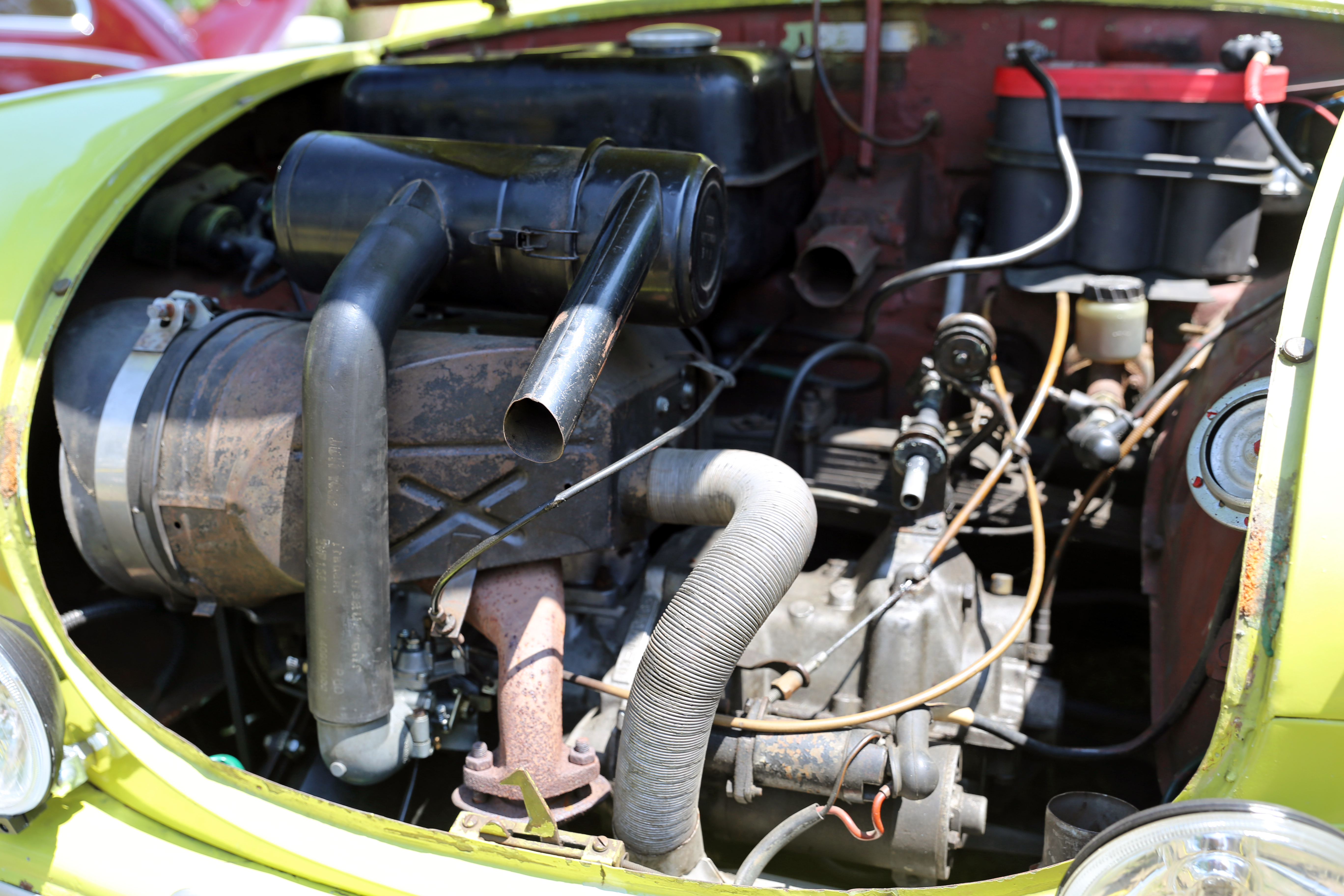 1960 Trabant P50 (this is the improved P50/1 engine with 20PS) at the 2013 Greenwich Concours d'Elegance.